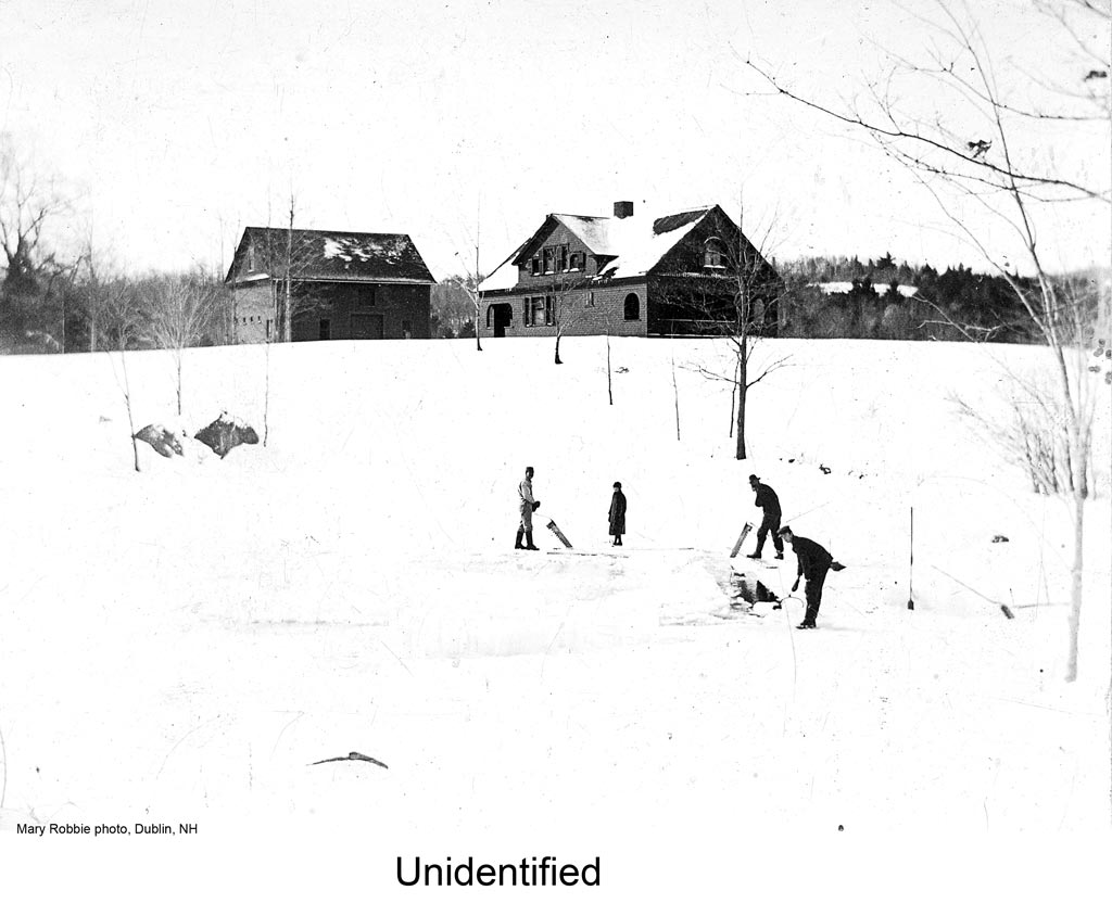 TITLE Sawing Ice in Dublin New Hampshire CREATOR Robbe, Mary E. SUBJECT Men - NH - Dublin Ice - NH - Dublin DESCRIPTION Photograph of people cutting ice on a lake in Dublin NH. PUBLISHER Keene Public Library and the Historical Society of Cheshire County DATE DIGITAL 20100723 DATE ORIGINAL 1900? RESOURCE TYPE photographs FORMAT image/jpg RESOURCE IDENTIFIER Robbe078 RIGHTS MANAGMENT No known copyright restrictions.